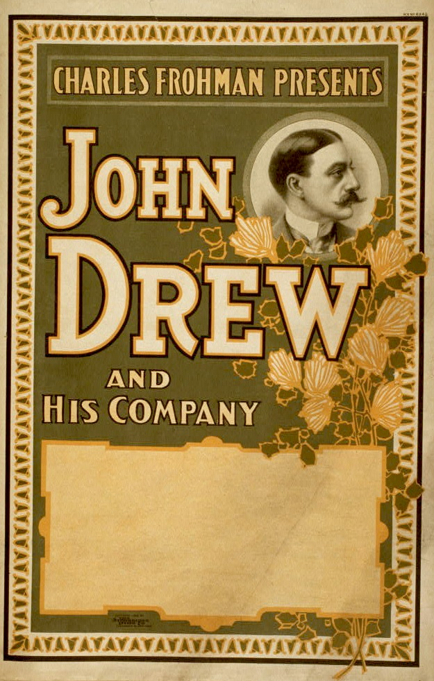 "Charles Frohman presents John Drew and his company"